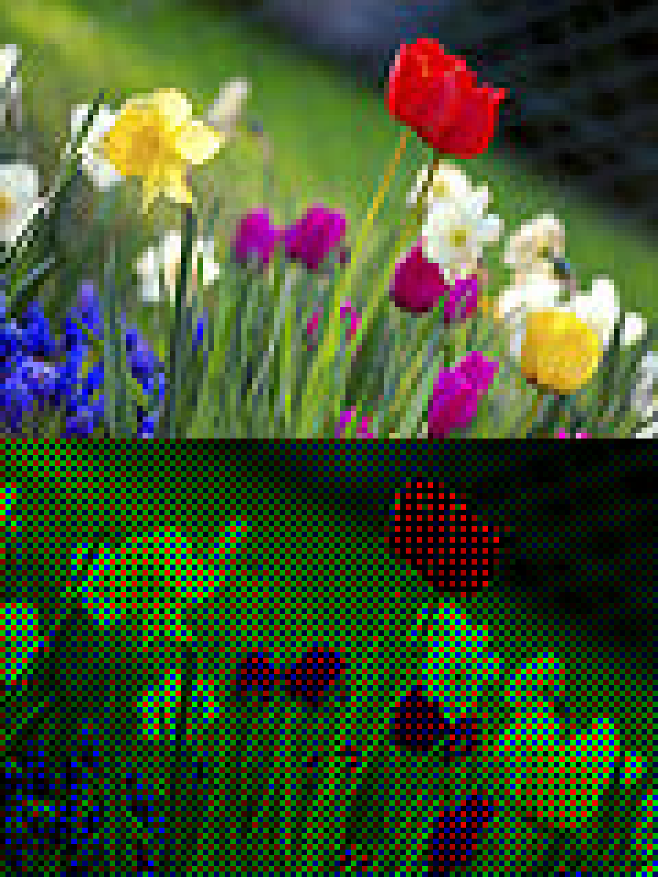 The bottom image is how a Bayer filter sensor in a digital camera would capture the image. The camera interpolates the missing colour information to reconstruct the top image as good as possible.